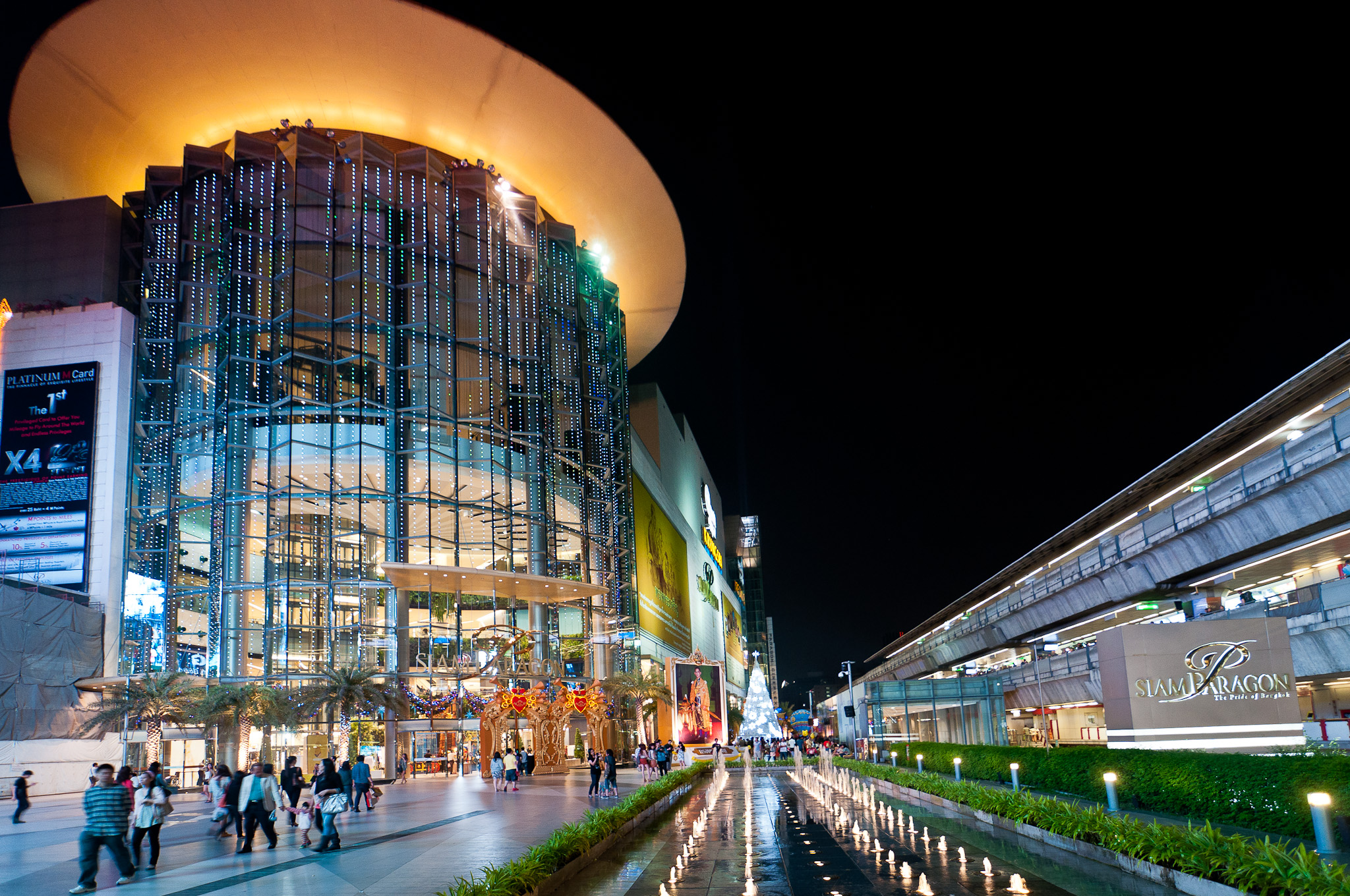 The Siam Paragon shopping center and adjacent Siam BTS SkyTrain station in Bangkok, Thailand.